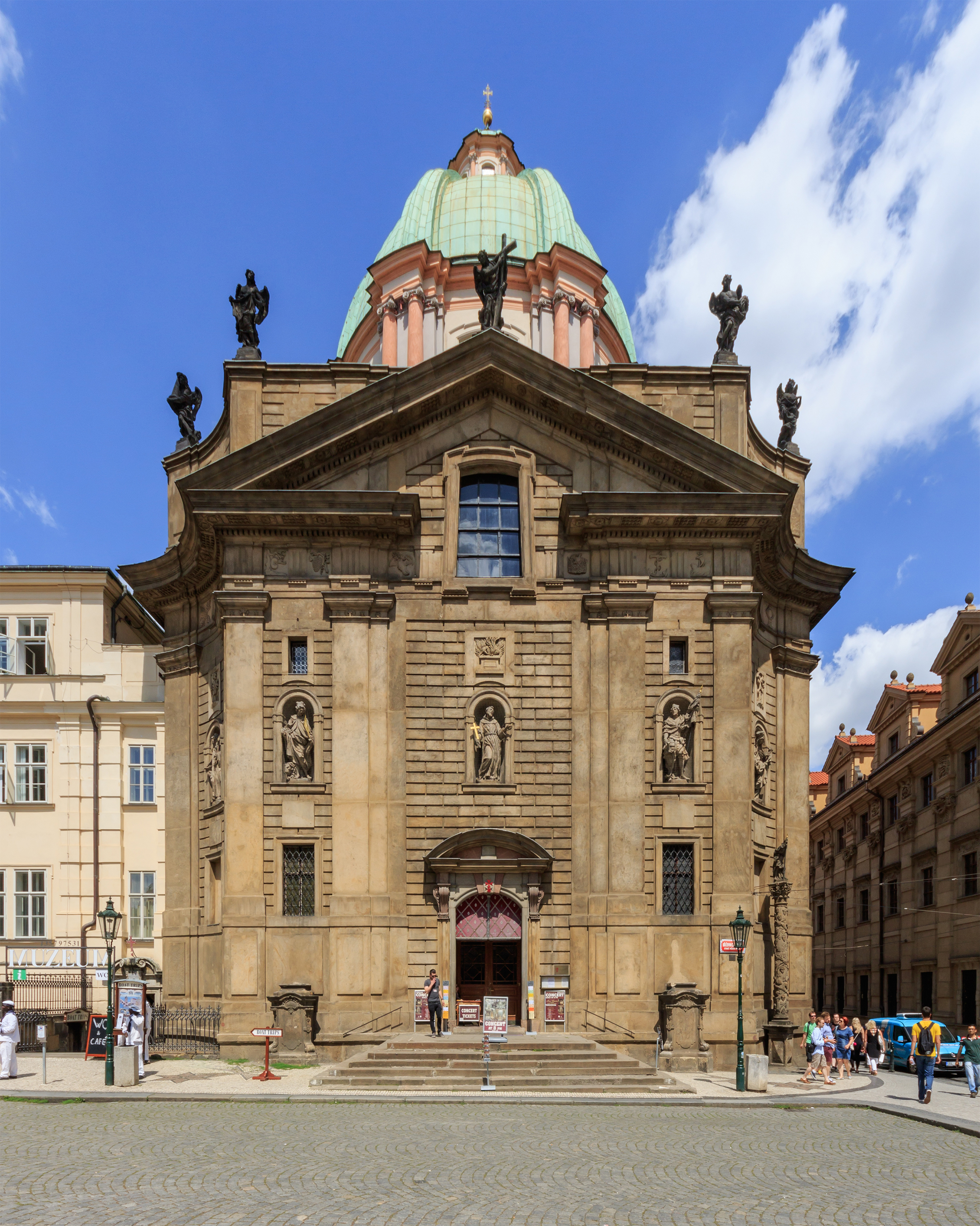 Church of Saint Francis of Assisi in Prague (Czech Republic)